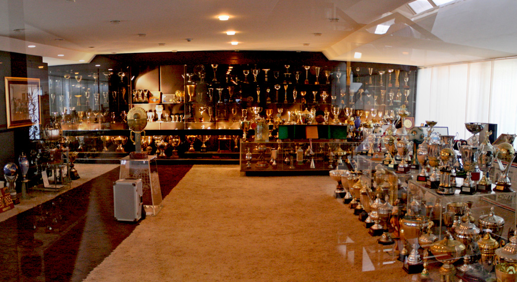 Poljud - the trophy room